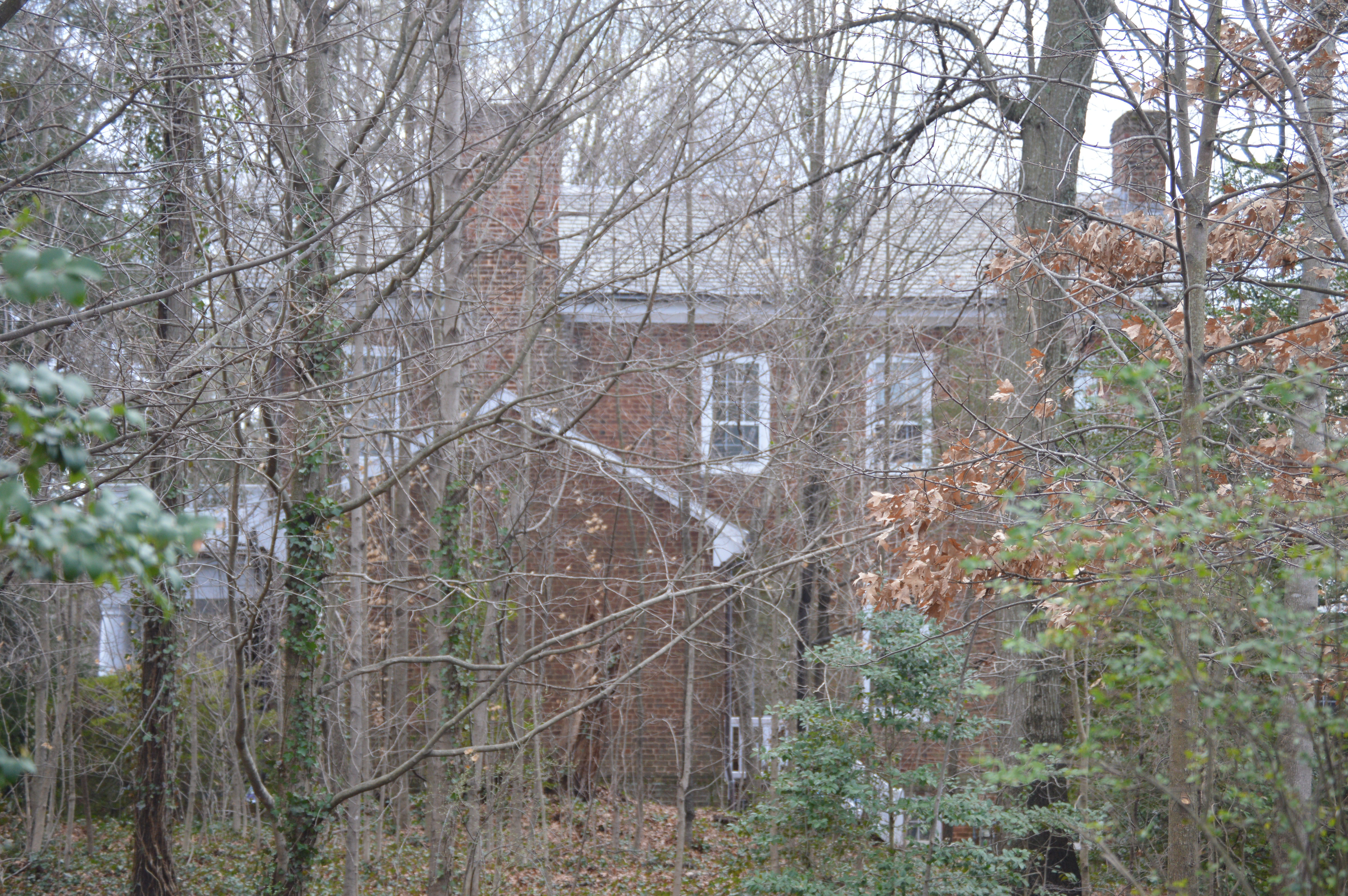 Through-the-trees view of Oak Lawn, located on the southern side of Cherry Avenue between Ninth and Tenth Streets in Charlottesville, Virginia, United States. Built in 1822, it is listed on the National Register of Historic Places, and it is part of a Register-listed historic districts in the United States, the Fifeville and Tonsler Neighborhoods Historic District.